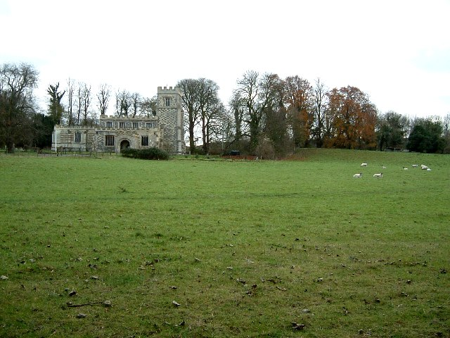 Church of England parish church of St Mary the Virgin, Drayton Beauchamp, Buckinghamshire